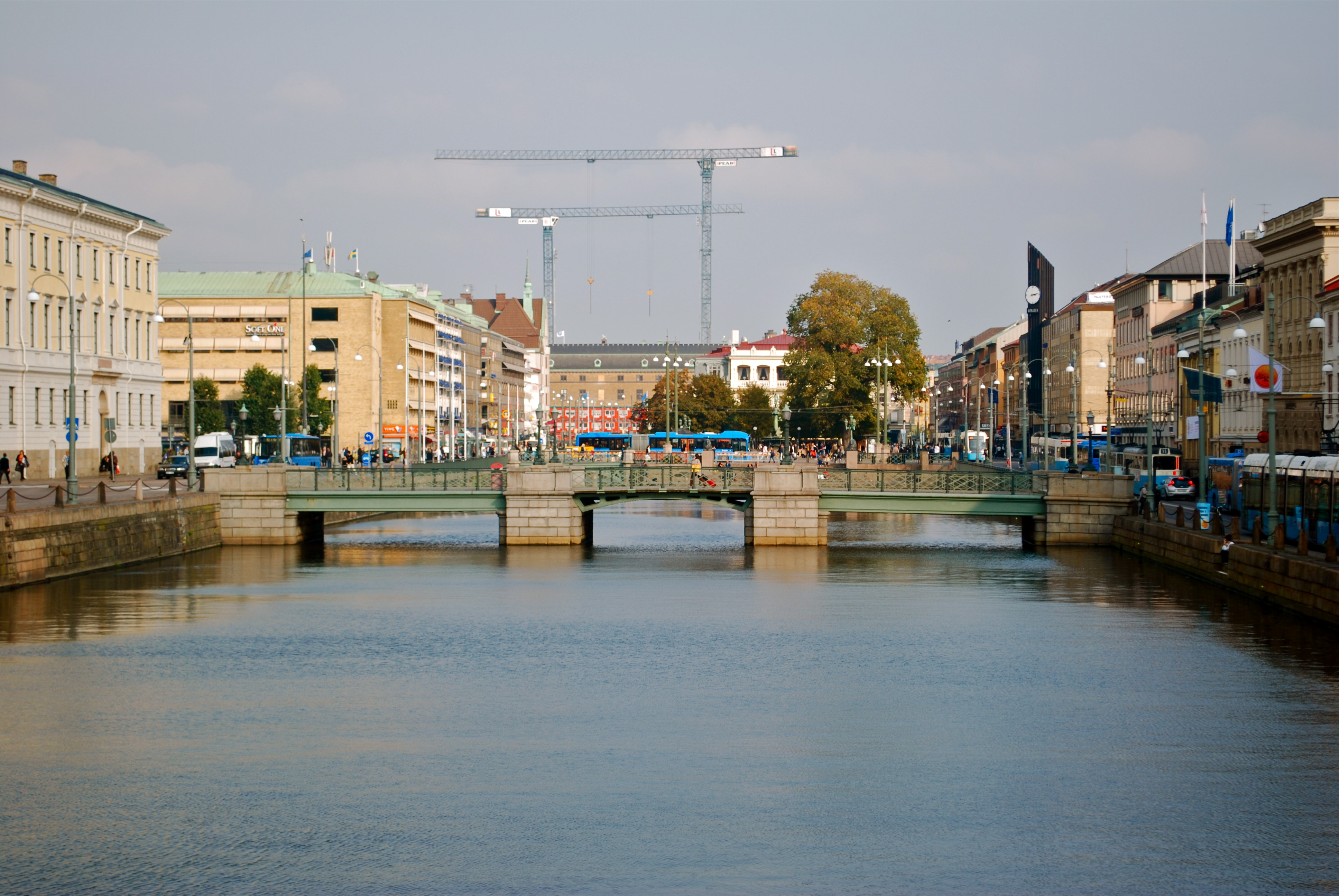 Tyska bron (The German bridge), from Kämpebron.